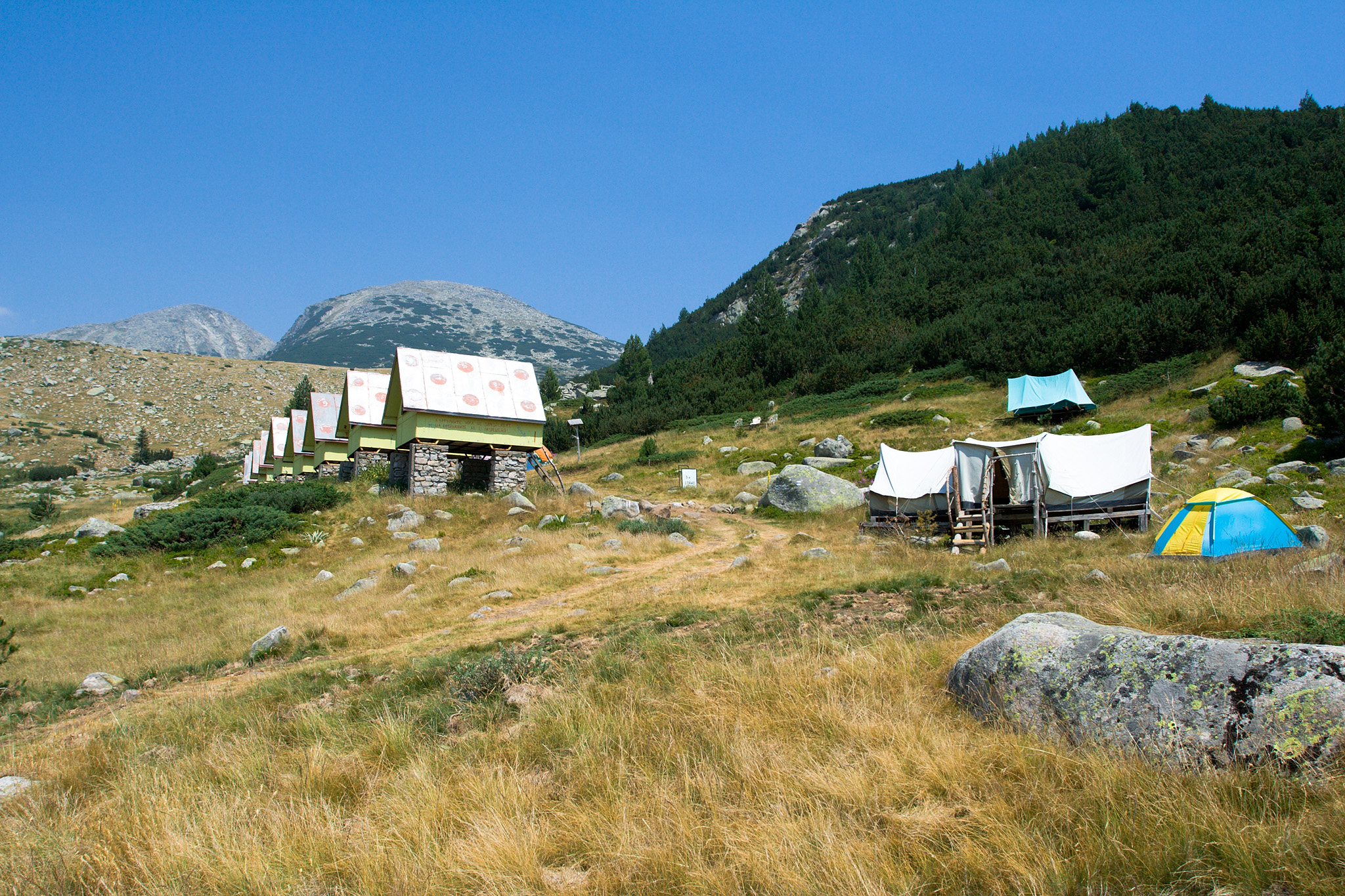 Spano Pole refuge in Pirin mountain, Bulgaria